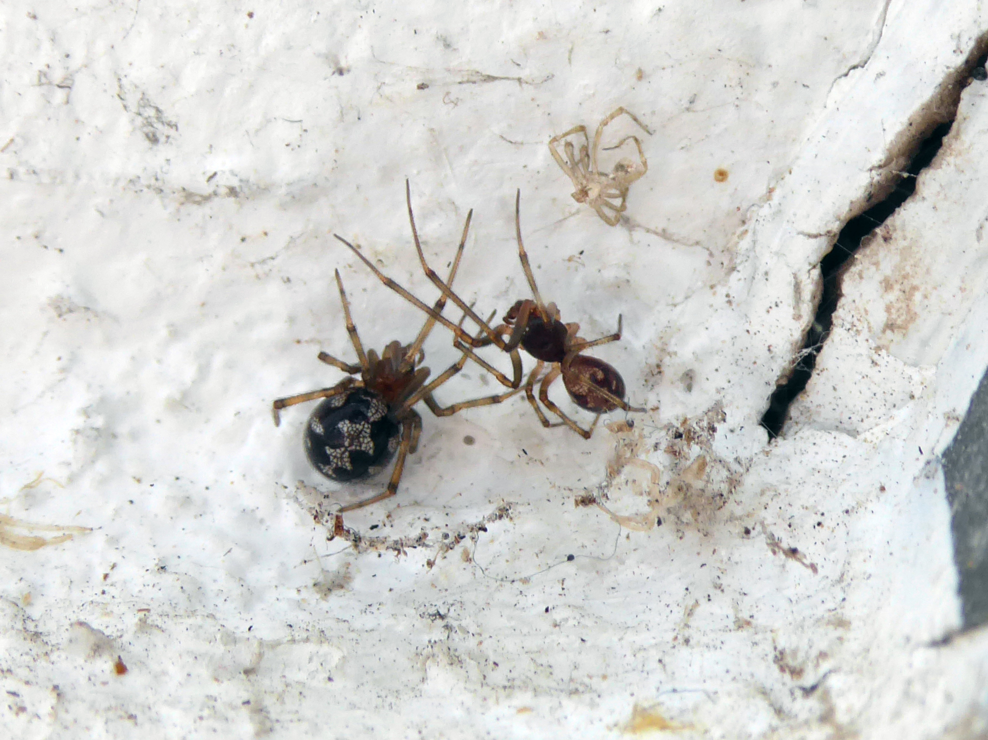 A couple of Steatoda triangulosa (female left, male right) photographed in Piazzo (Segonzano, Trentino, Italy)